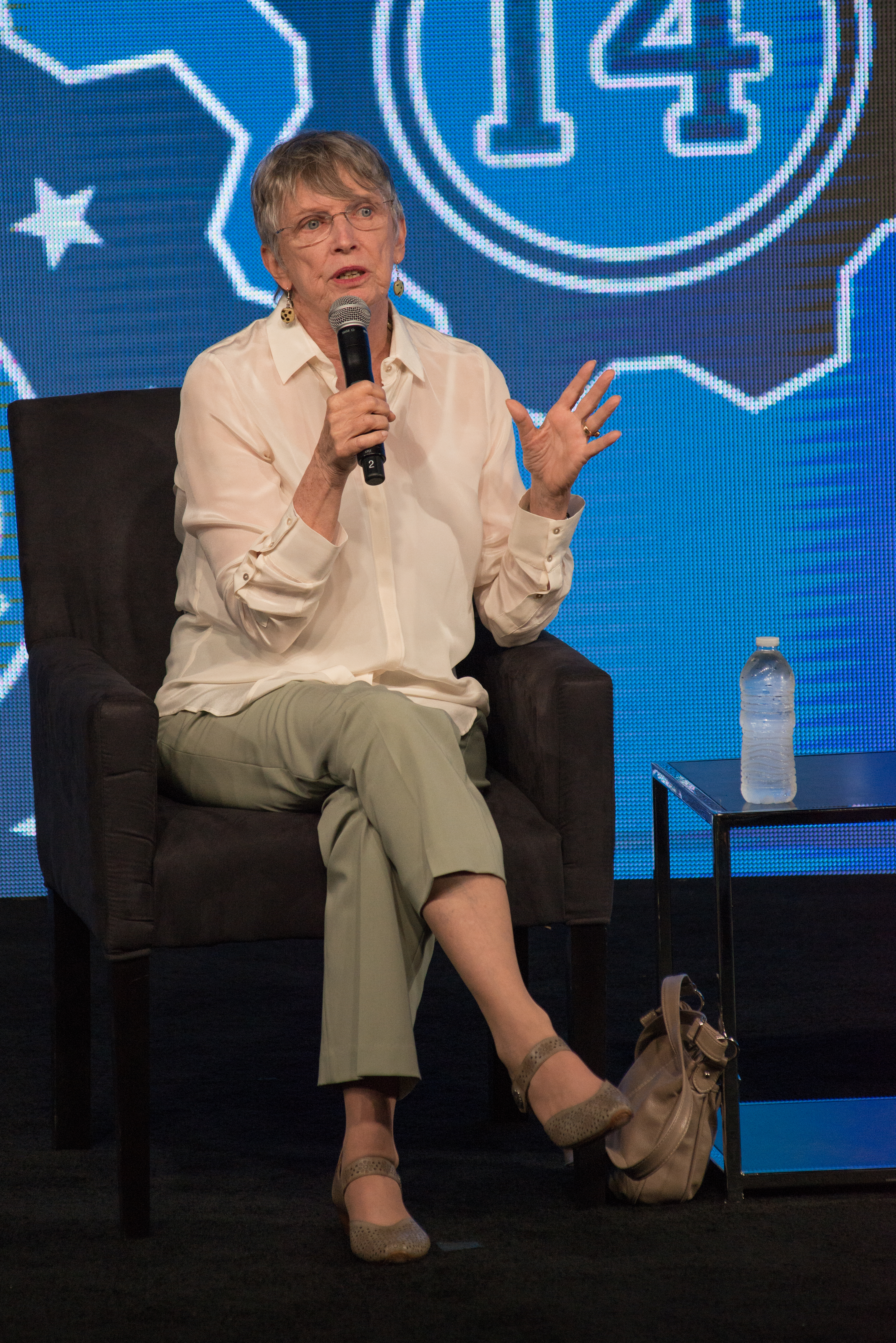 Lois Lowry talking about The Giver in 2014